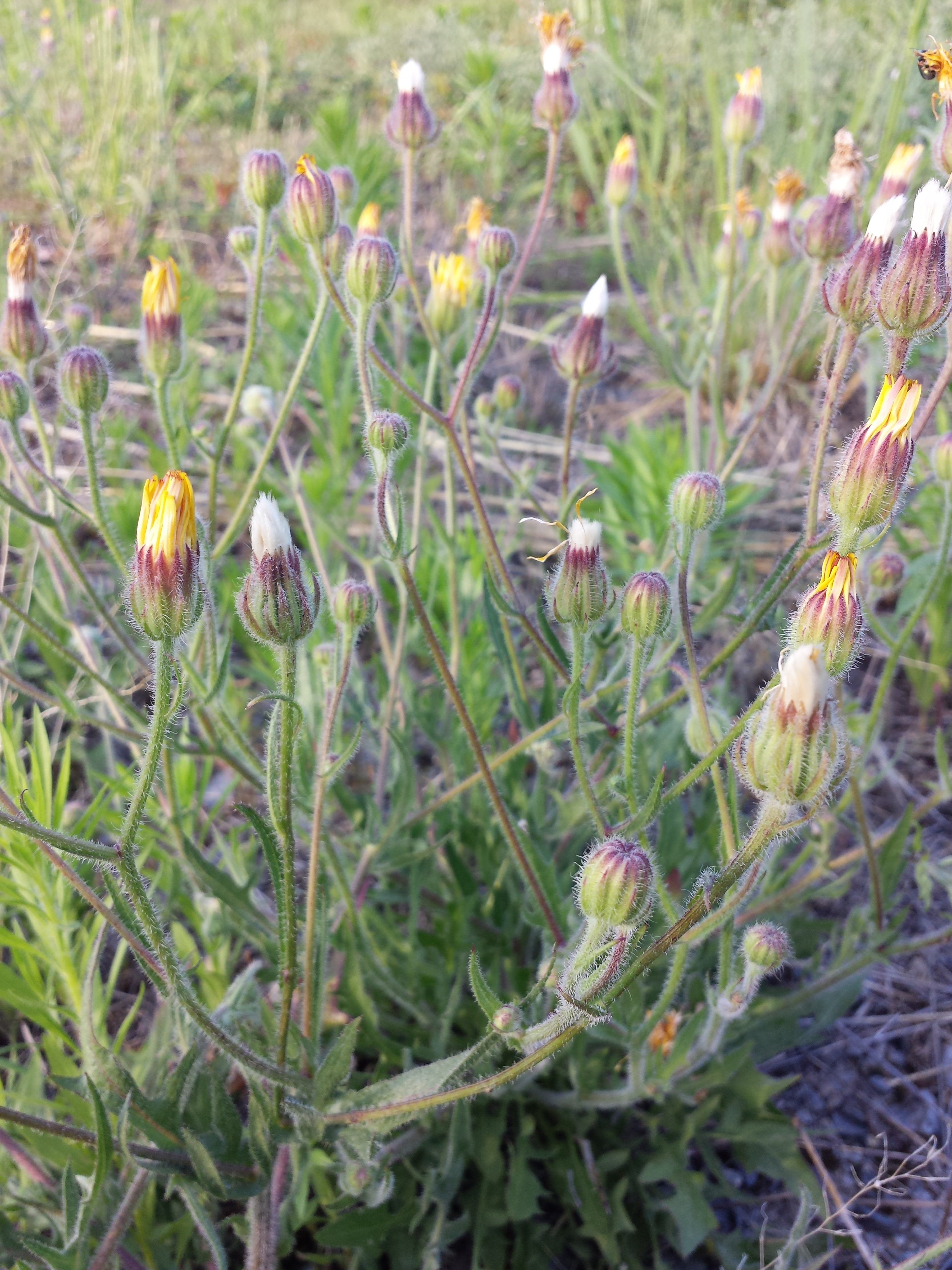 Flowers Taxon: Crepis foetida subsp. rhoeadifolia (sensu Fischer et al. EfÖLS 2008) Location: station Floridsdorf towards Leopoldau, Vienna-Floridsdorf - ca. 170 m a.s.l. Habitat: ballast